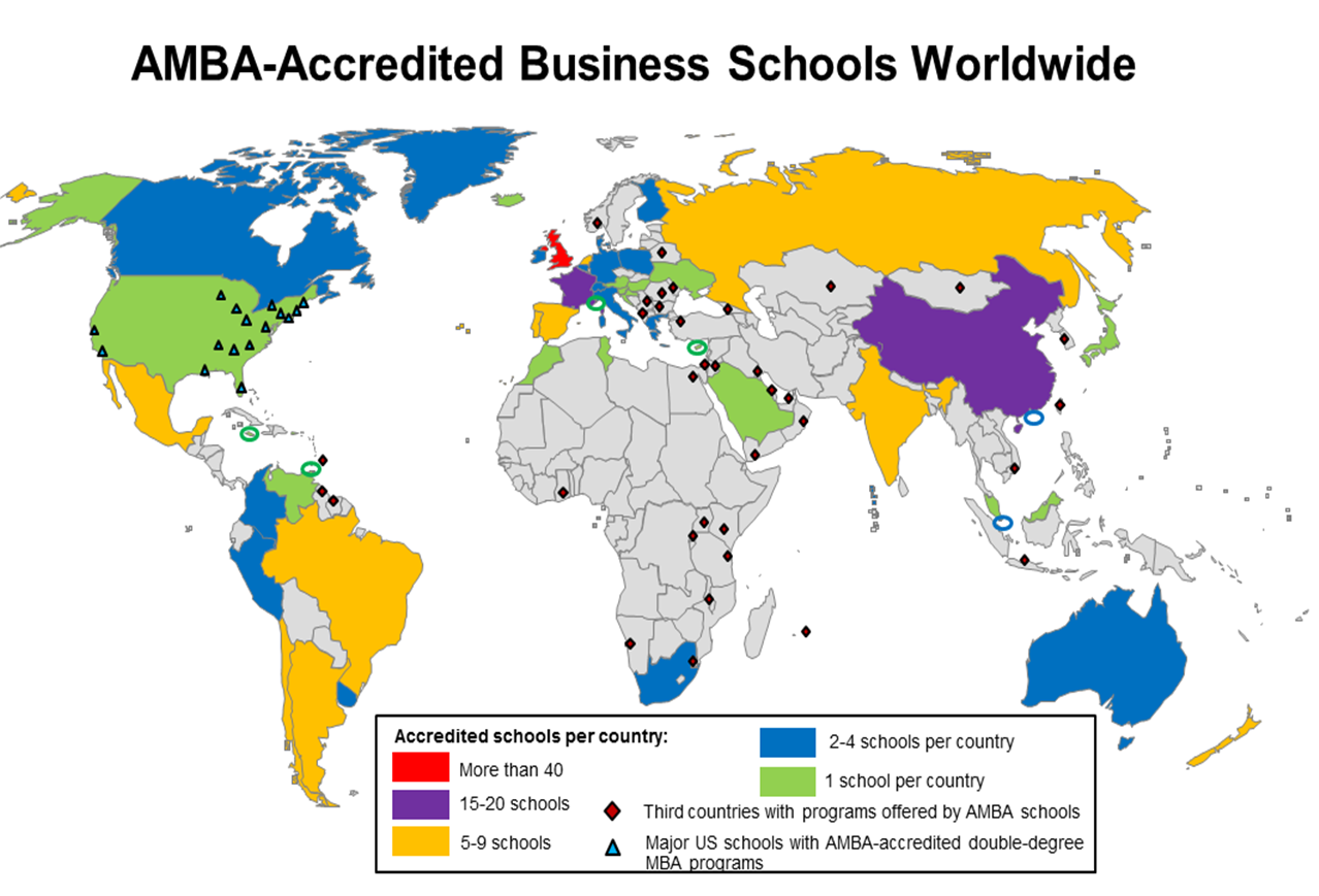 This is a world map of AMBA-accredited business schools by country.